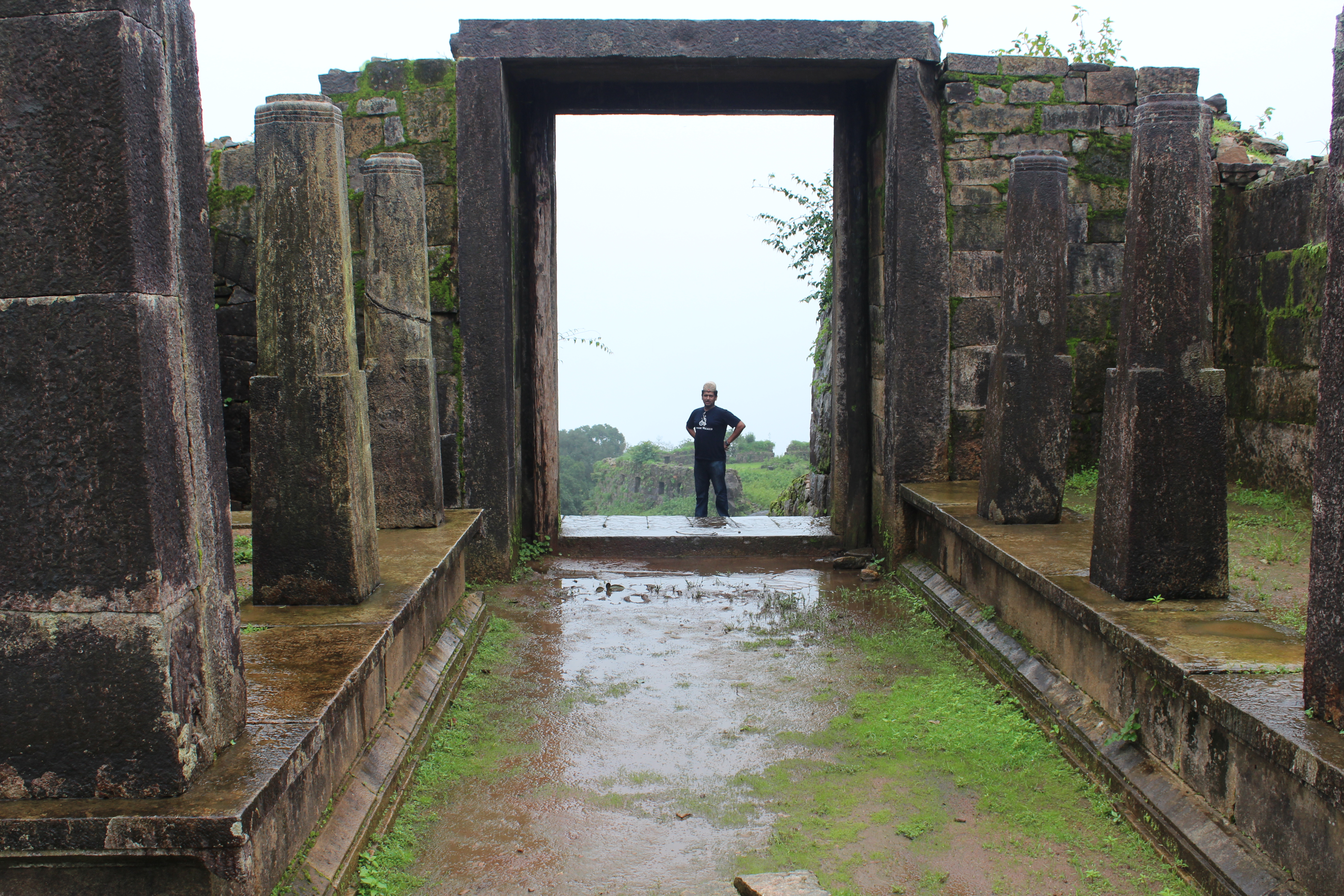 Kavale durga Fort